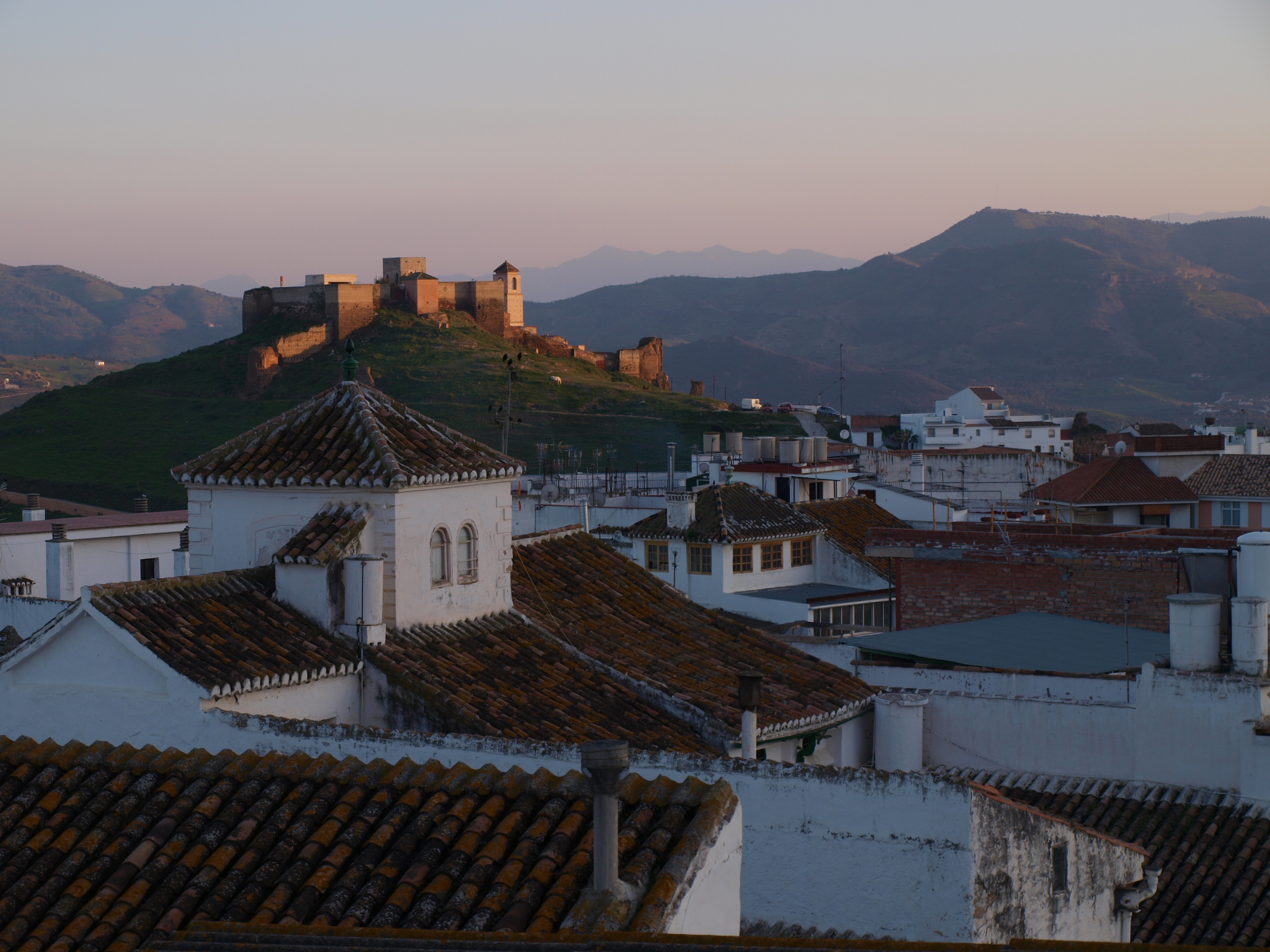 Alora,Spain Fortress